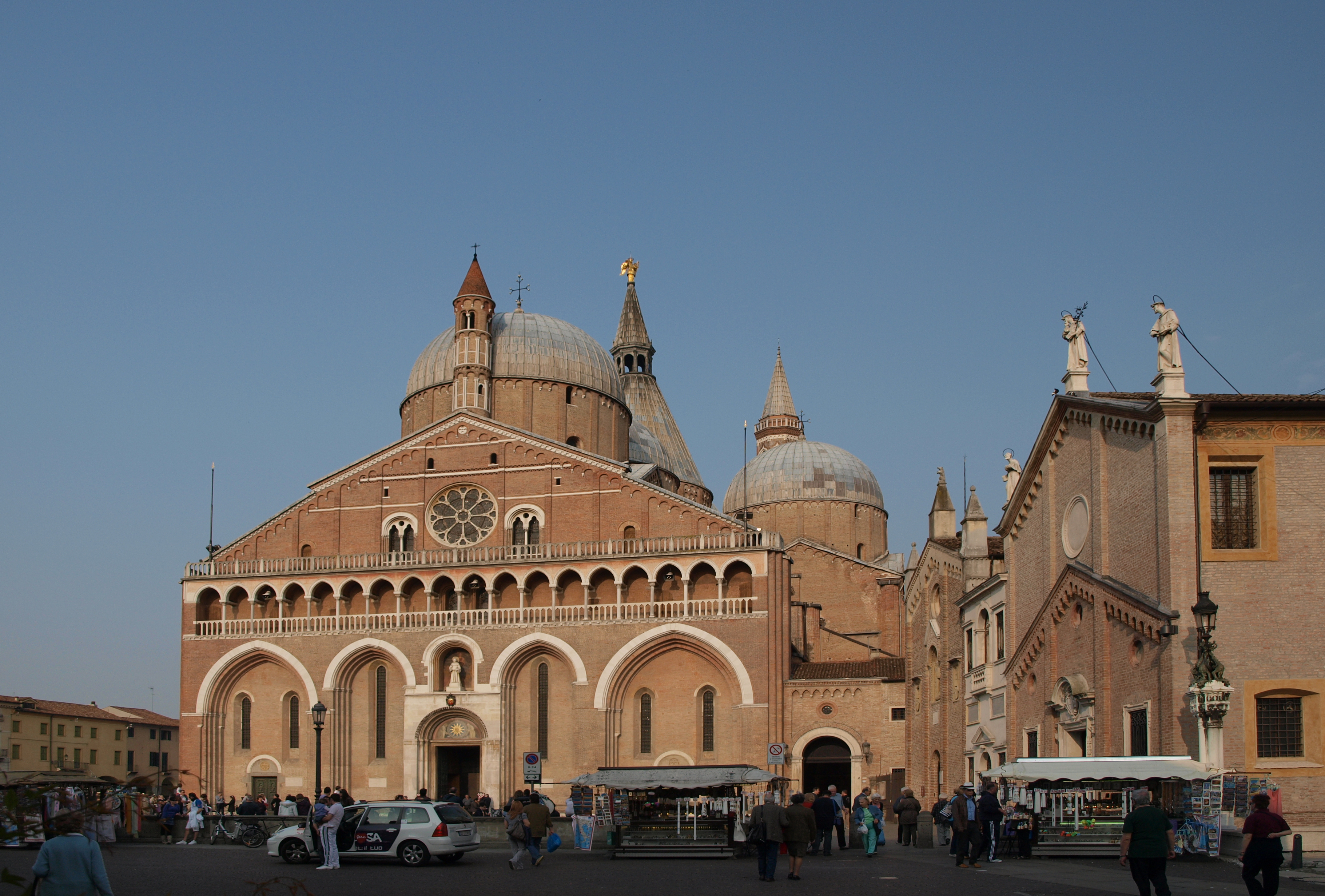 Basilica Santo Antonio in Padova, region Veneto, Italy.